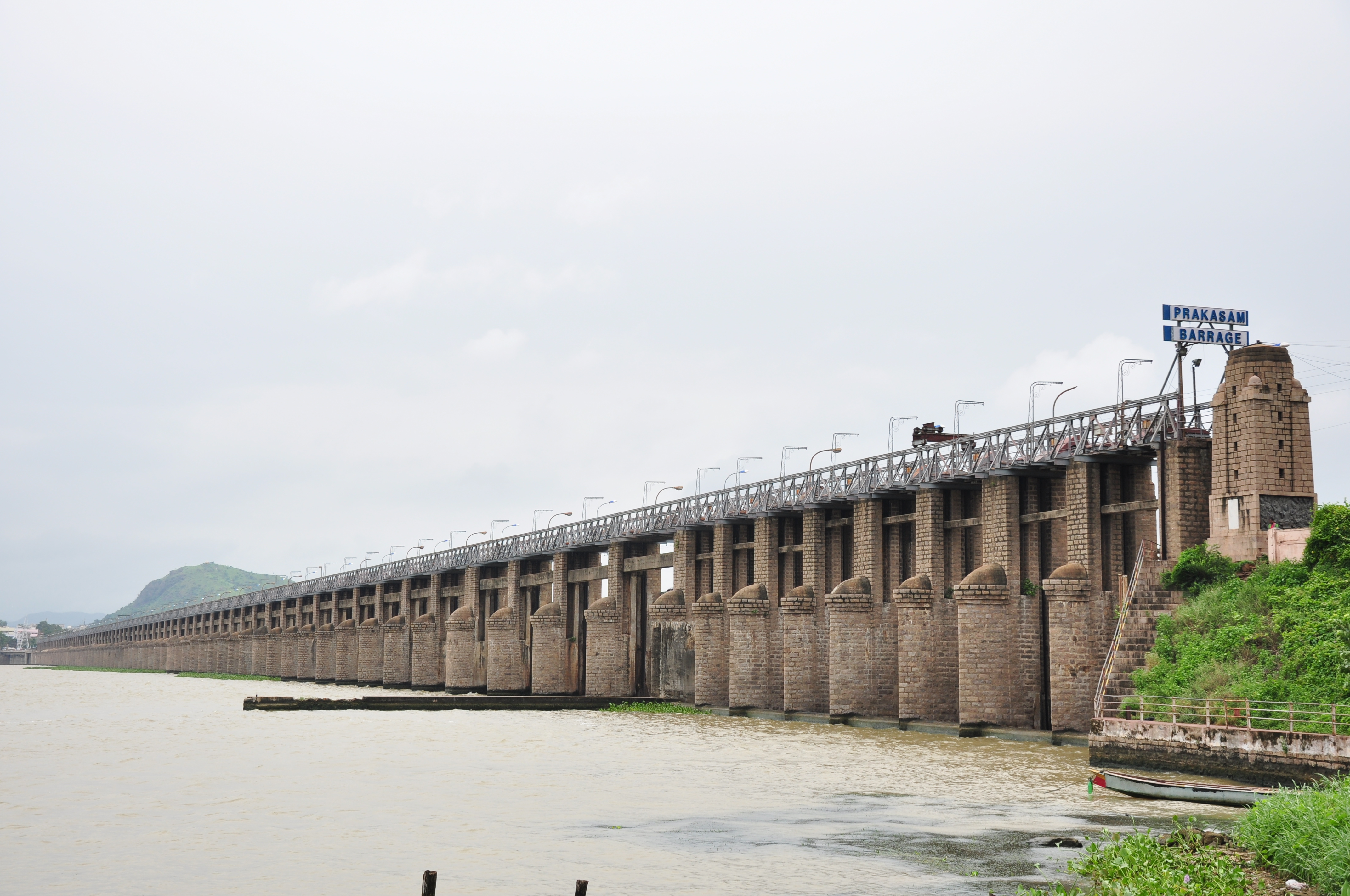 View of Prakasam Barrage